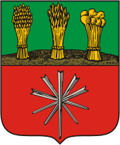 Nizhny Lomov (Penza oblast), coat of arms (1781)